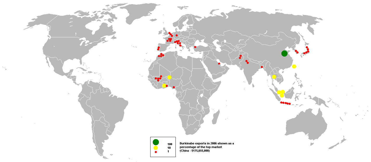 This bubble map shows the global distribution of Burkinabe exports in 2006 as a percentage of the top market (China - $175,655,000). This map is consistent with incomplete set of data too as long as the top producer is known. It resolves the accessibility issues faced by colour-coded maps that may not be properly rendered in old computer screens. Data was extracted on 18th September 2007 from Based on :Image:BlankMap-World.png